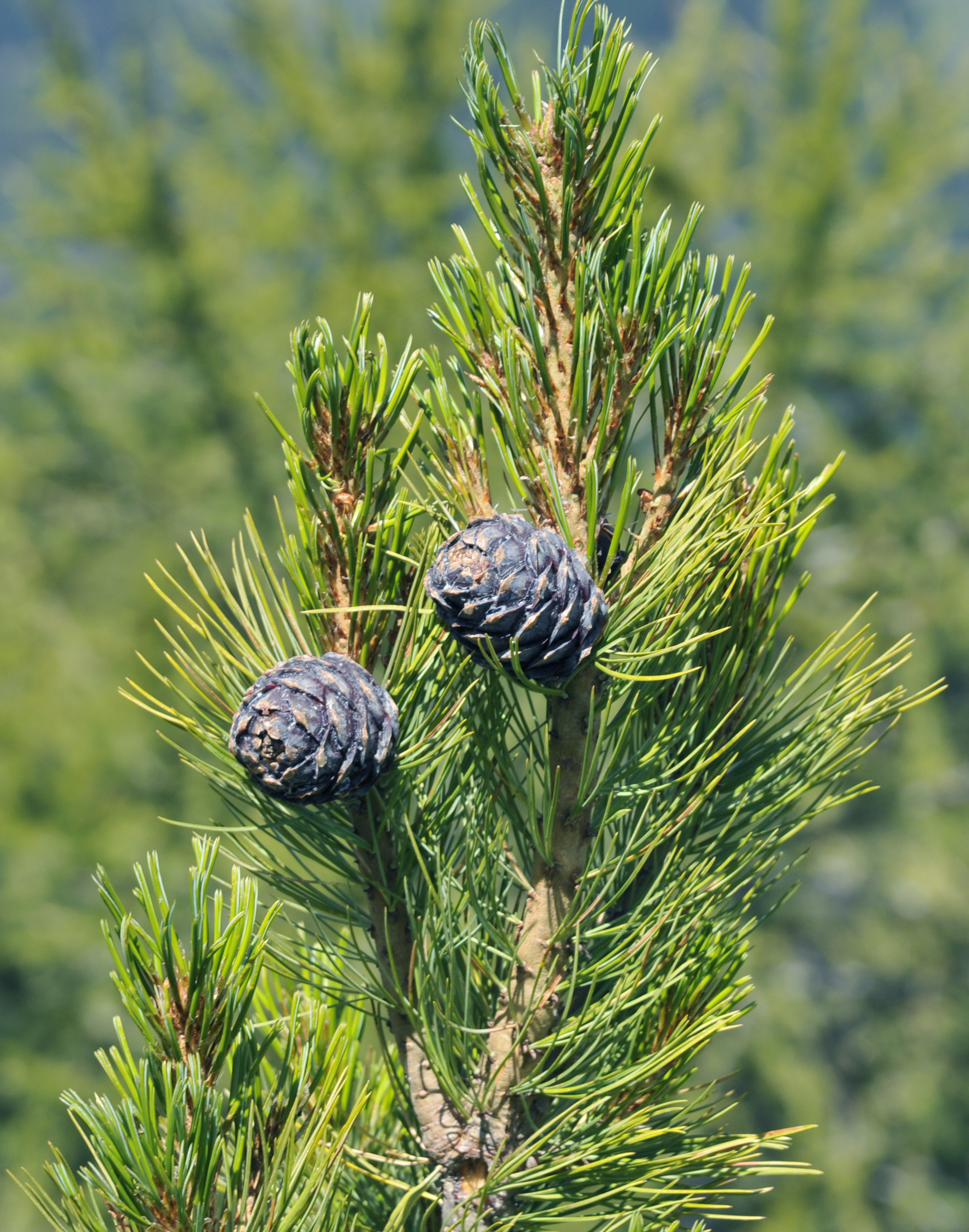 Cones of Pinus cembra in Gröden - Val Gardena, South Tyrol